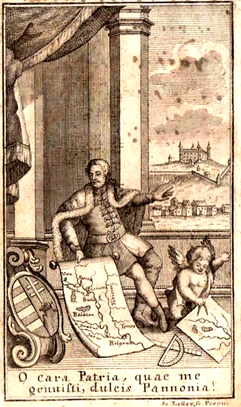 Portrait of Samuel Mikoviny from the book Compendium geographicum by Matthias Bel